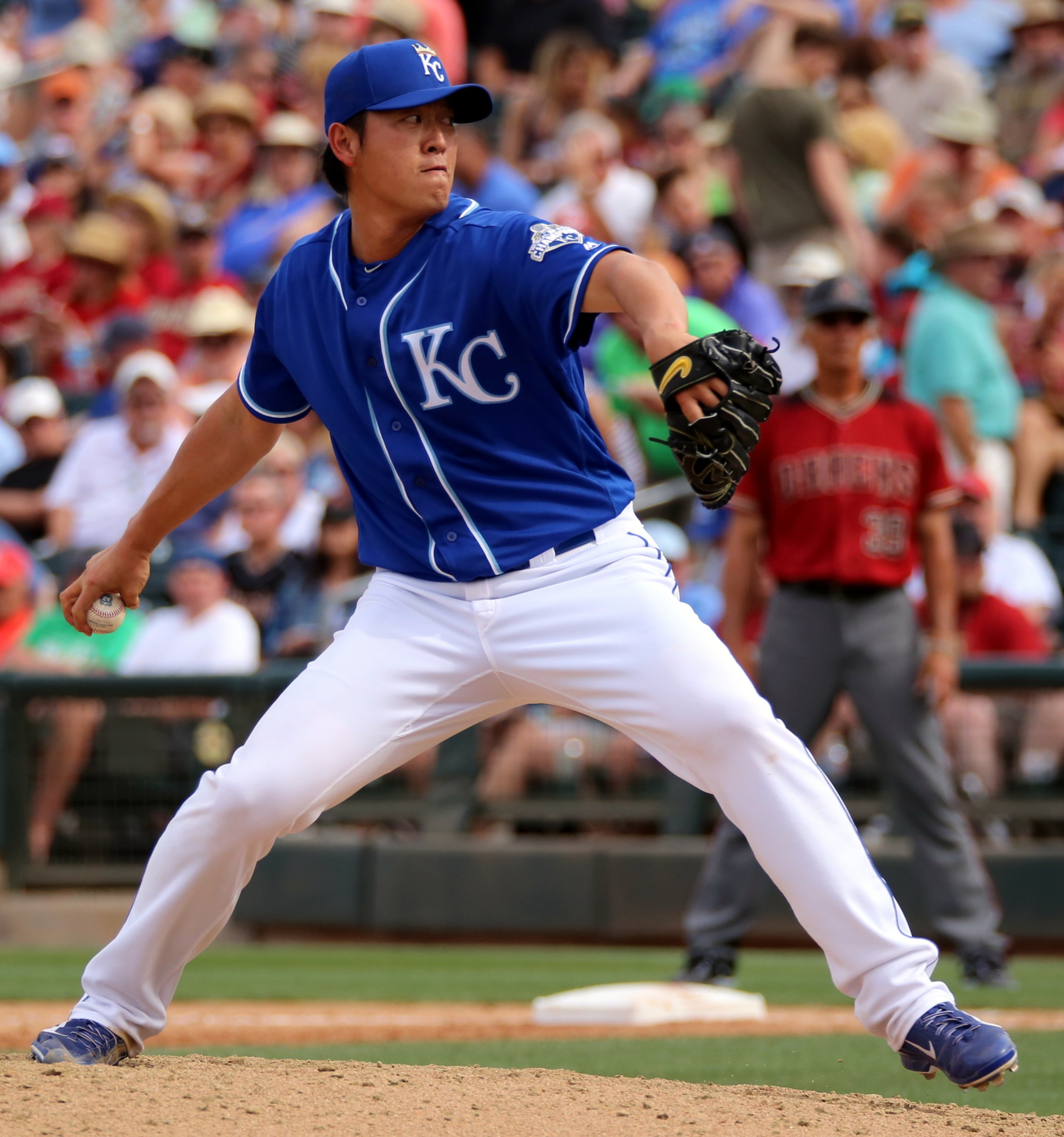 Royals righty Chien-Ming Wang delivers a pitch against the D-backs.